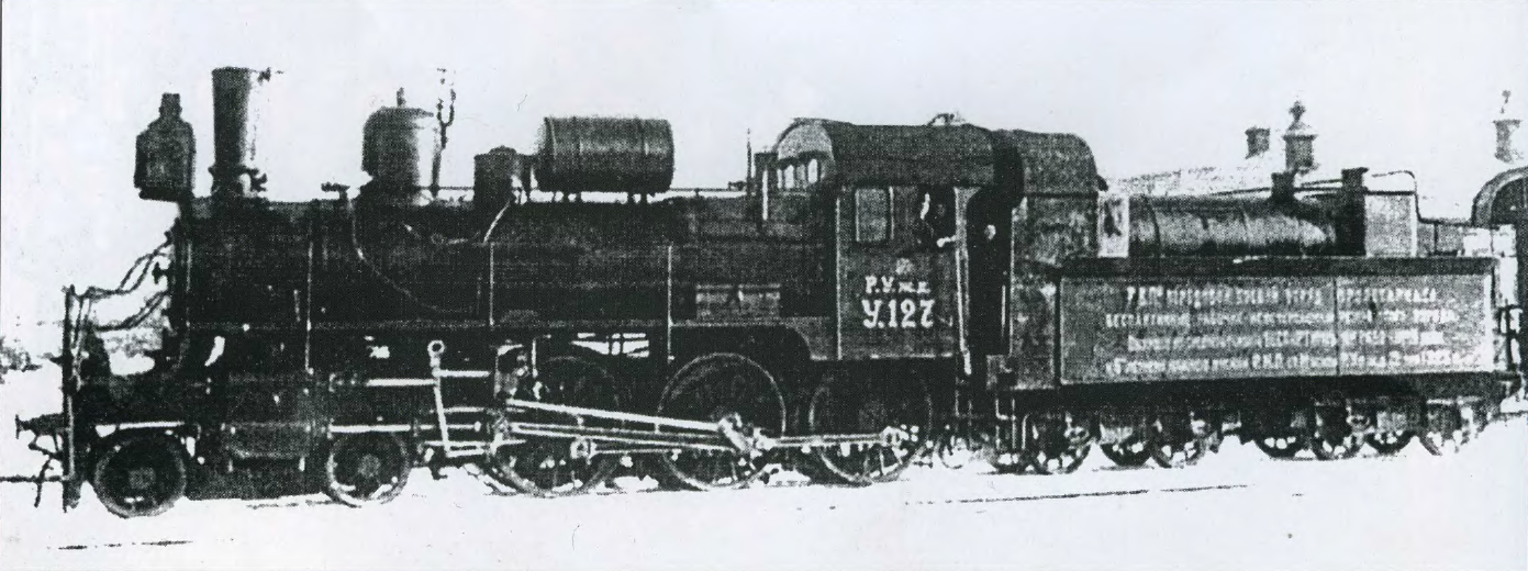 Russian steam locomotive U127 at the locomotive depot of the Moscow Ryazan-Urals railroad immediately after repairs in 1923.